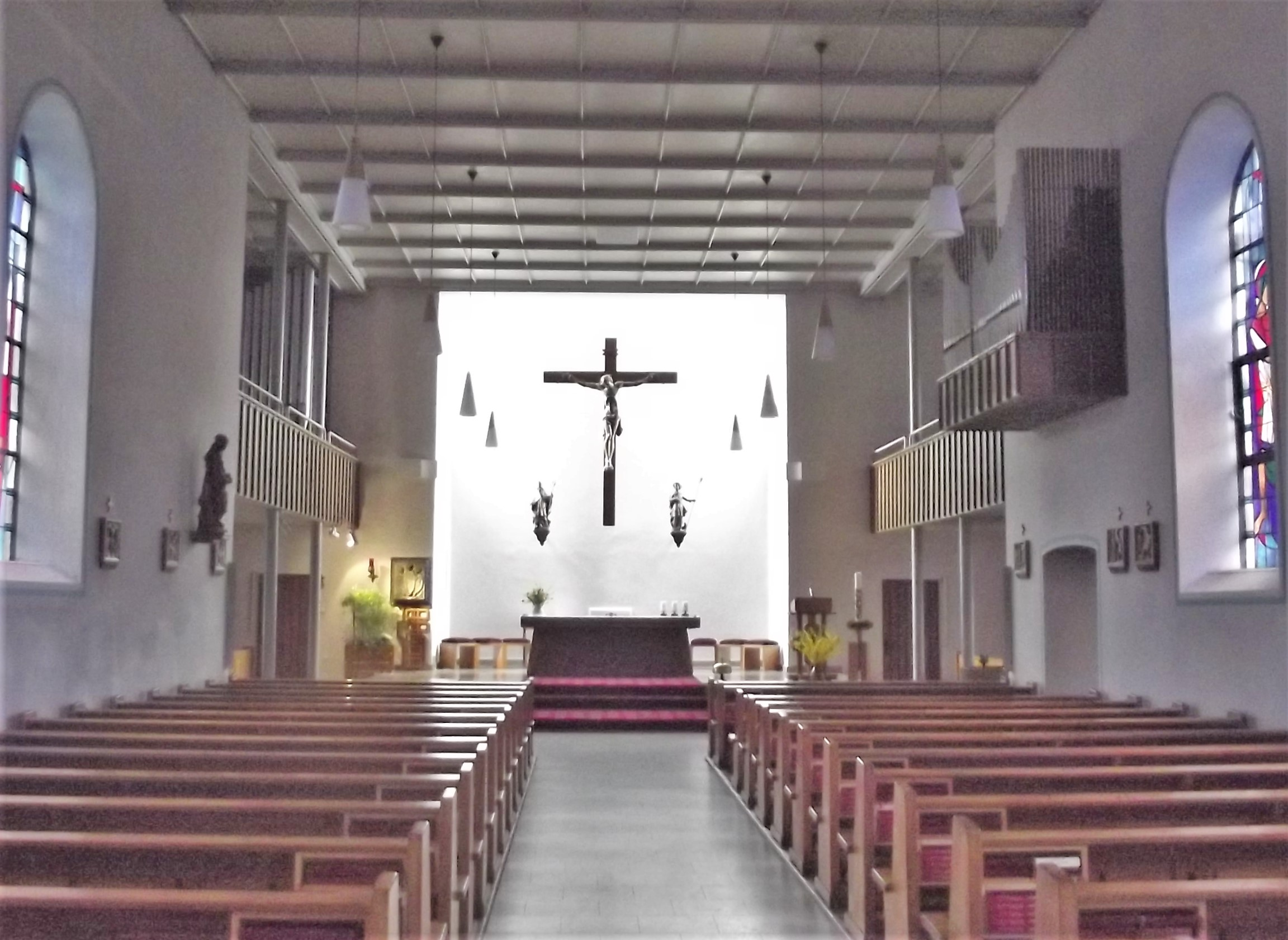 Interior of the roman catholic church in Niederlosheim, Saarland